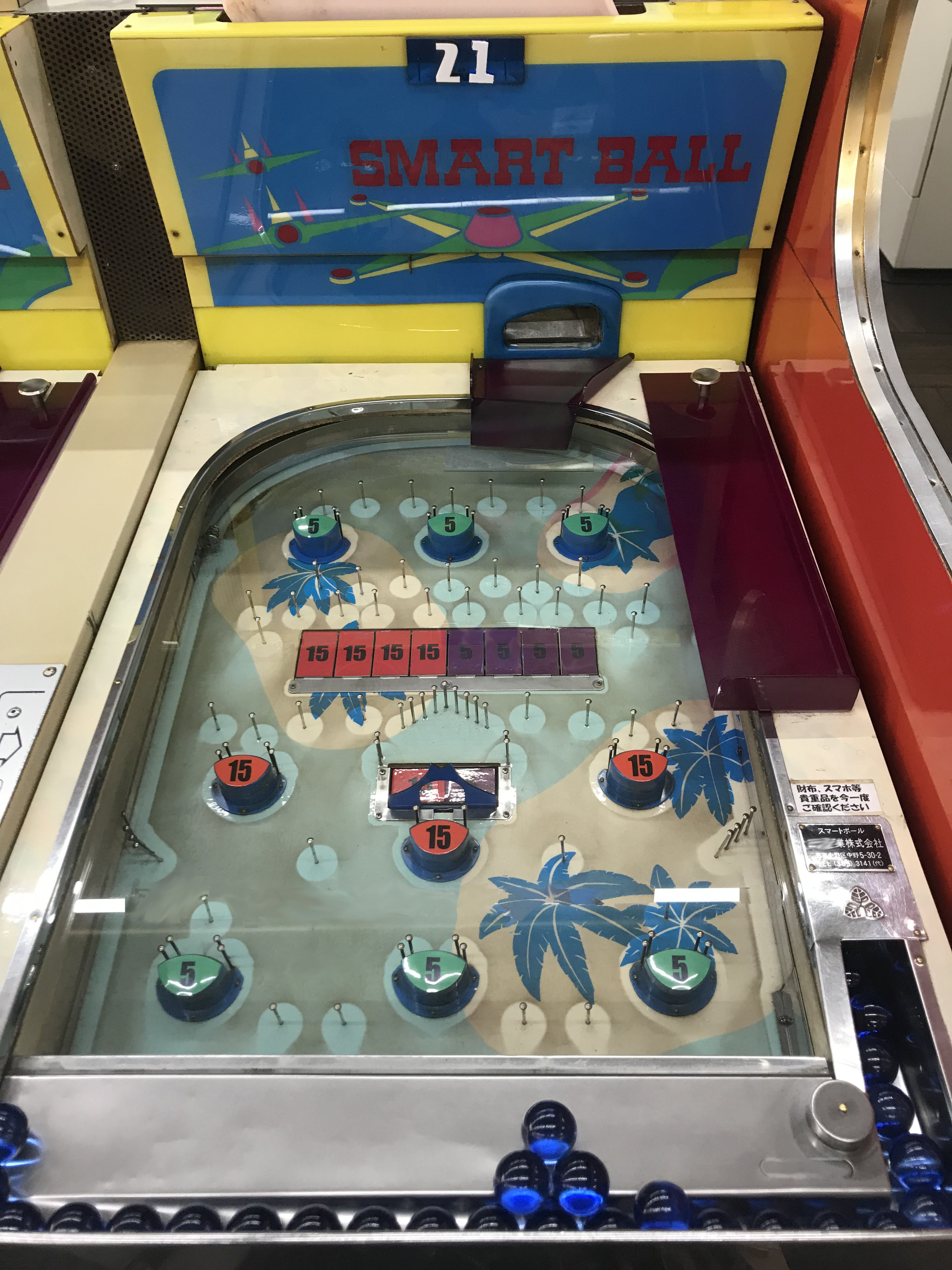 Japan's unique pinball machine called "Smart Ball".